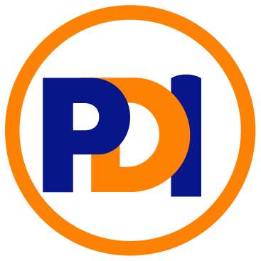 Logo of the Institutional Democratic Party, a political party in the Dominican Republic